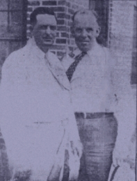 Sheriff Holt Coffey and Missouri Hwy Patrol Captain Baxter in 1933